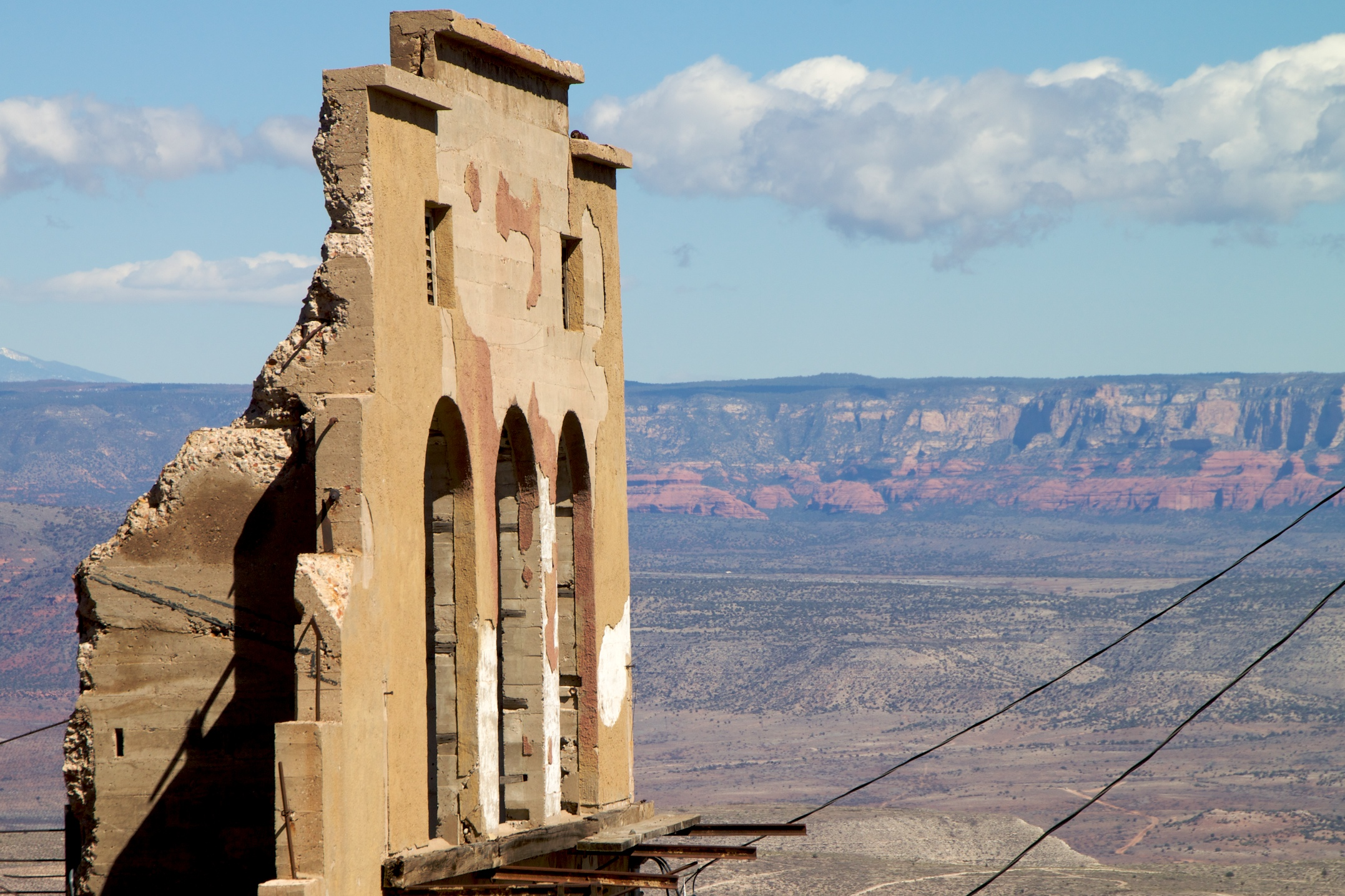 Ruin in Jerome, Arizona. All that's left of this building in Jerome is the front, but it has a spectacular view north across the Verde Valley to the red rocks of Sedona. According to my notes, this was at one time a grocery store (one of the few buildings in Jerome that seemed not to be a former brothel ;-); now there is a glass blowing art studio inside of the bottom portion.